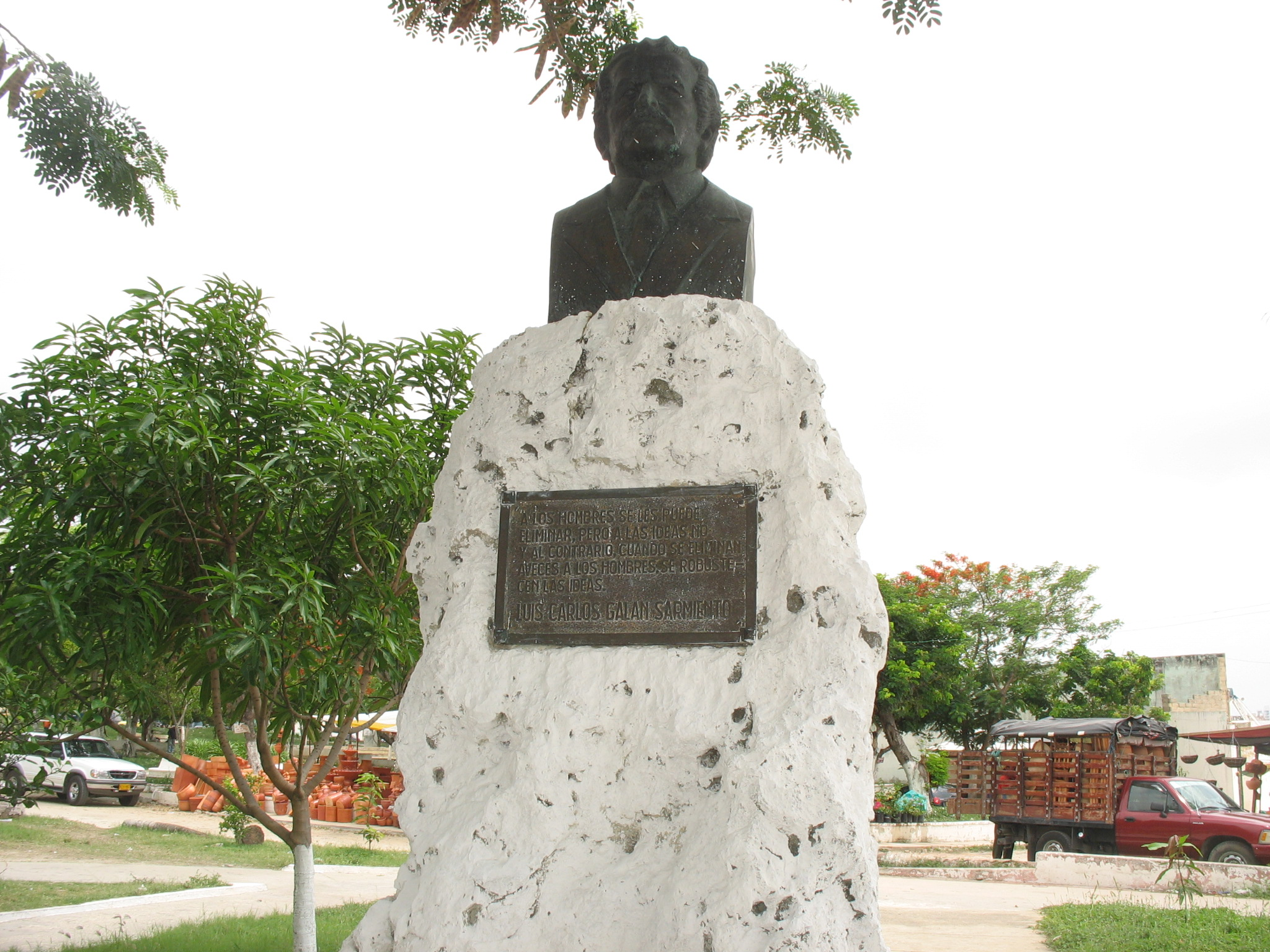 Barranquilla Galán Memorial